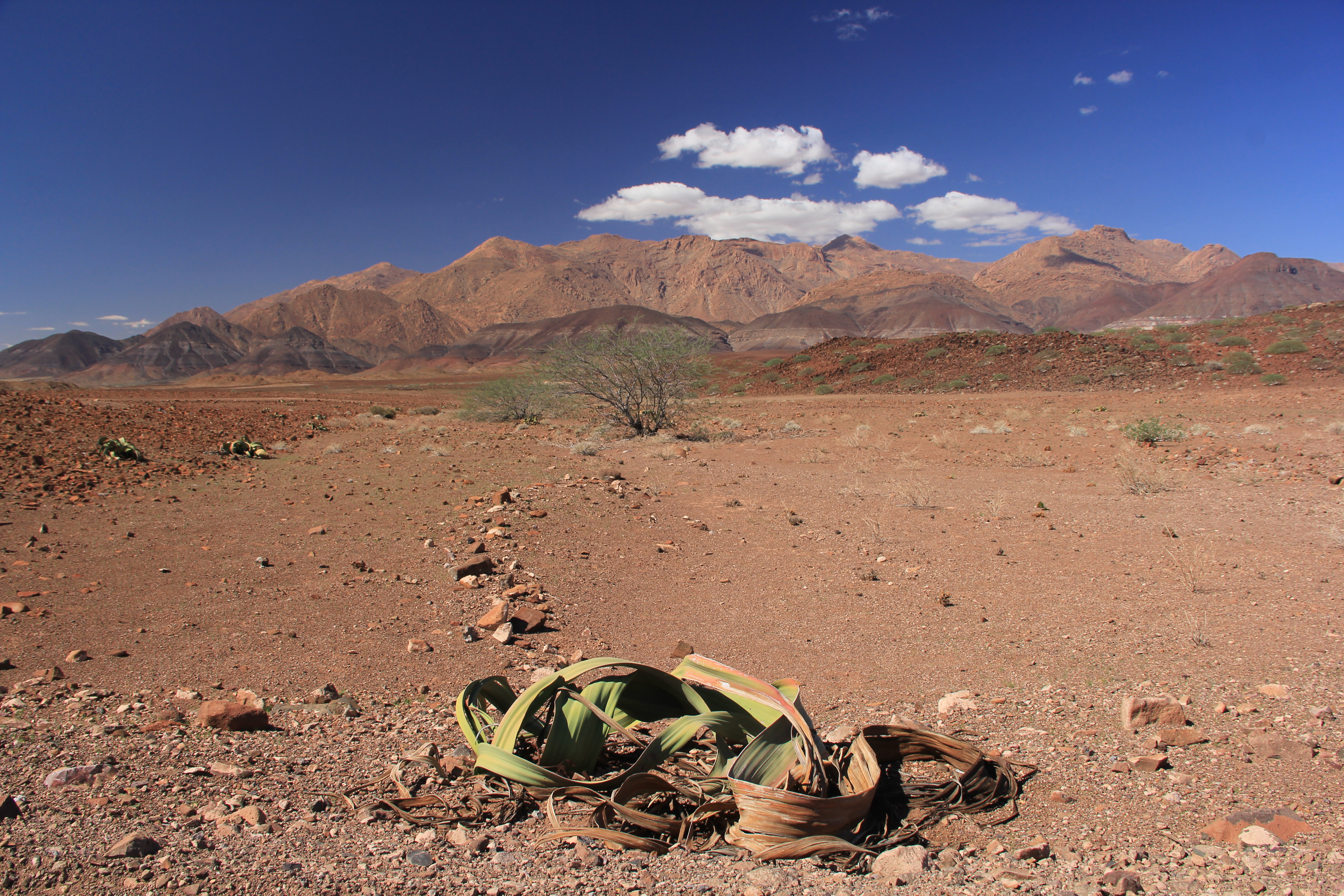 View of Brandberg from south. Welwitschia mirabilis in the foreground.